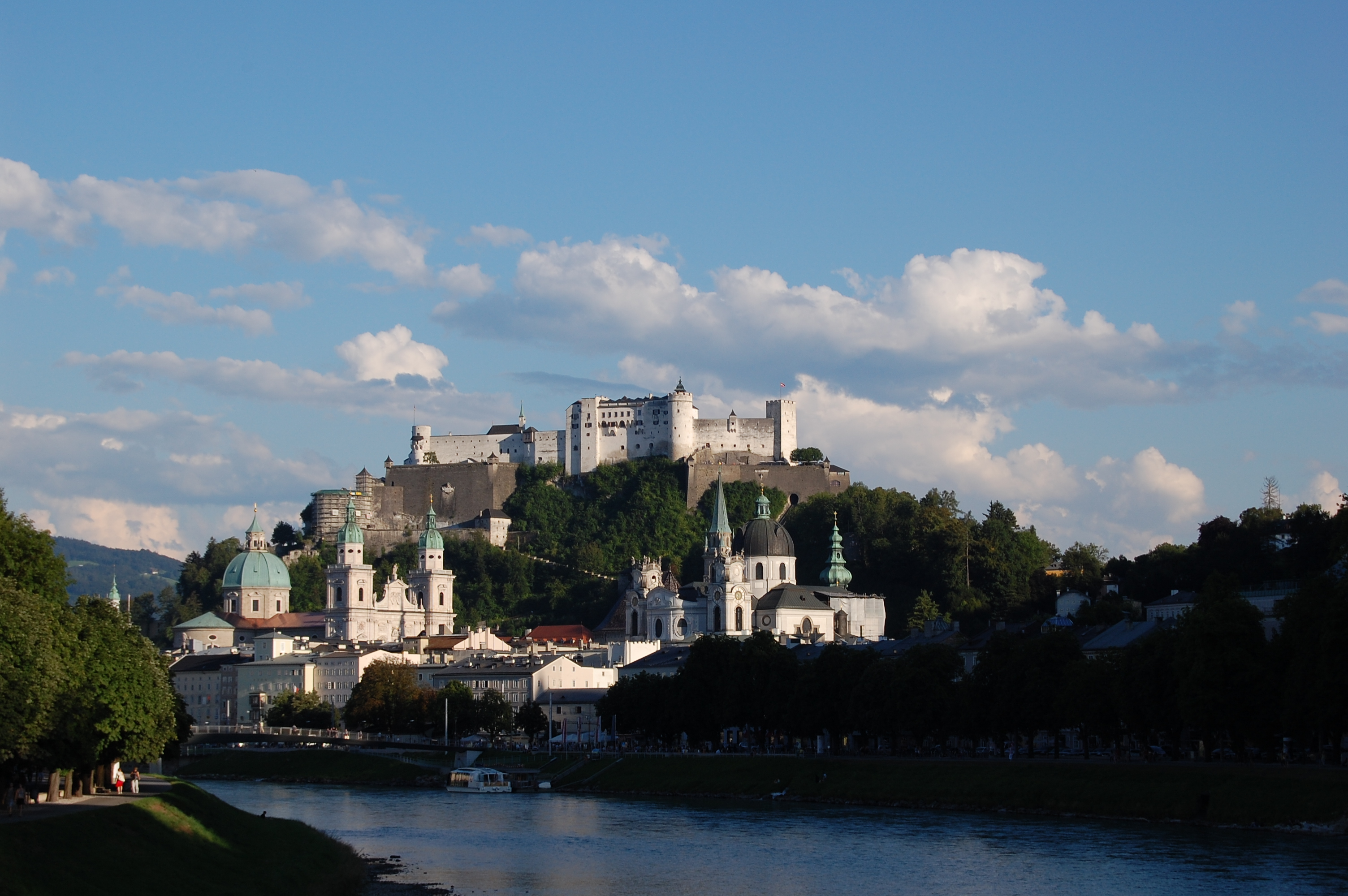 View from one of the Salzach pedestrian crossings towards "Festungsberg" in Salzburg/ Austria.